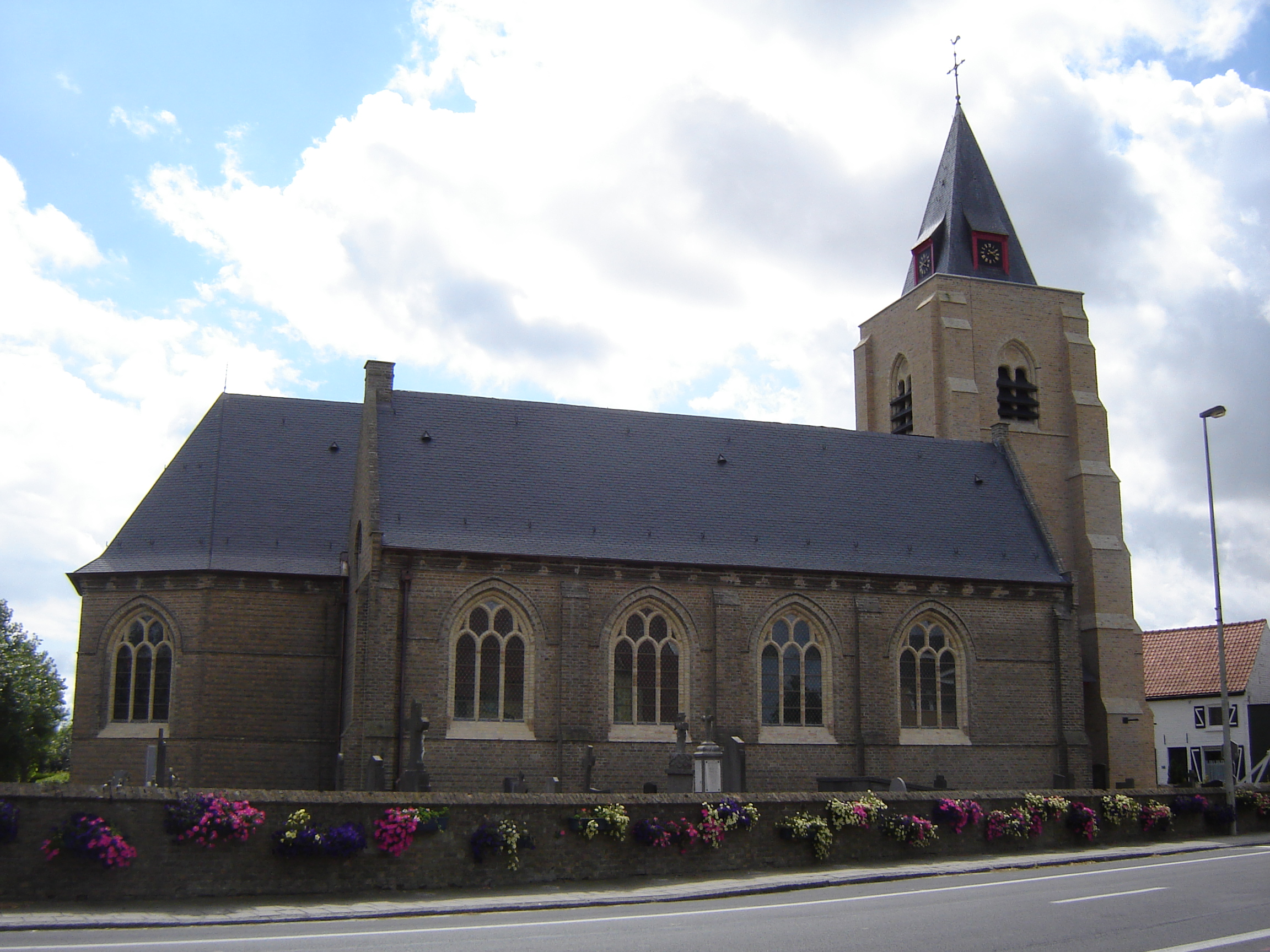 Church of Our Lady in Mannekensvere. Mannekensvere, Middelkerke, West Flanders, Belgium